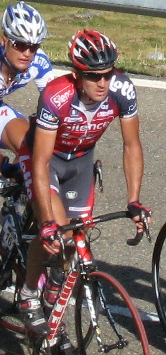 Yaroslav Popovych, 2008 Vuelta a España, 8th stage, Port de la Bonaigua, Spain.